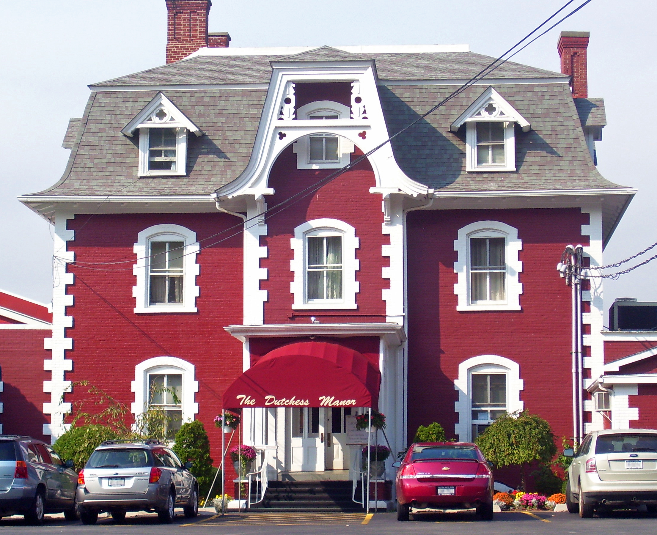 Dutchess Manor, along NY 9D in the Town of Fishkill, NY, USA. Vehicle license plate numbers blurred to protect owners' privacy.